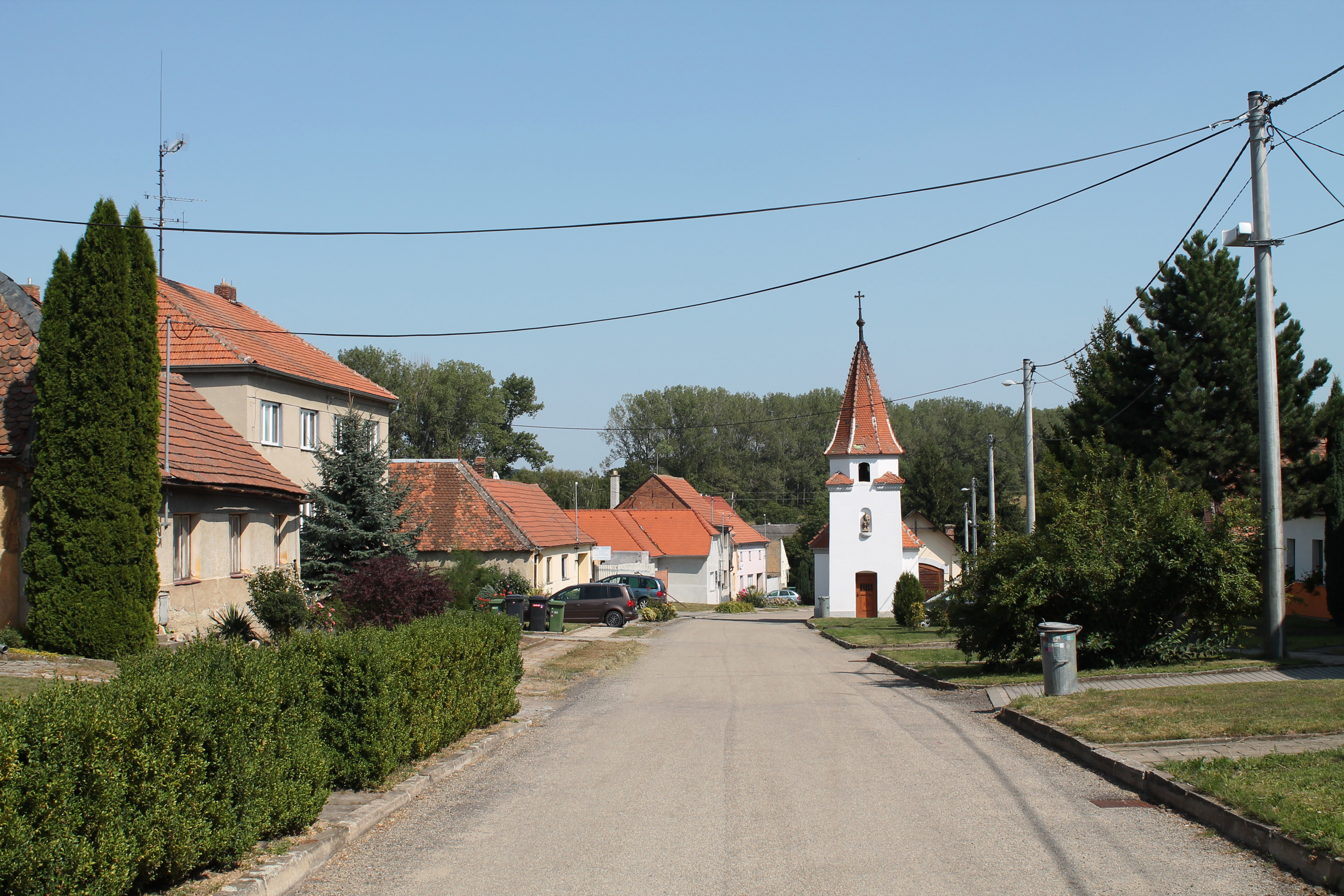 Zvonovice, Rostěnice-Zvonovice, Vyškov District, Czech Republic